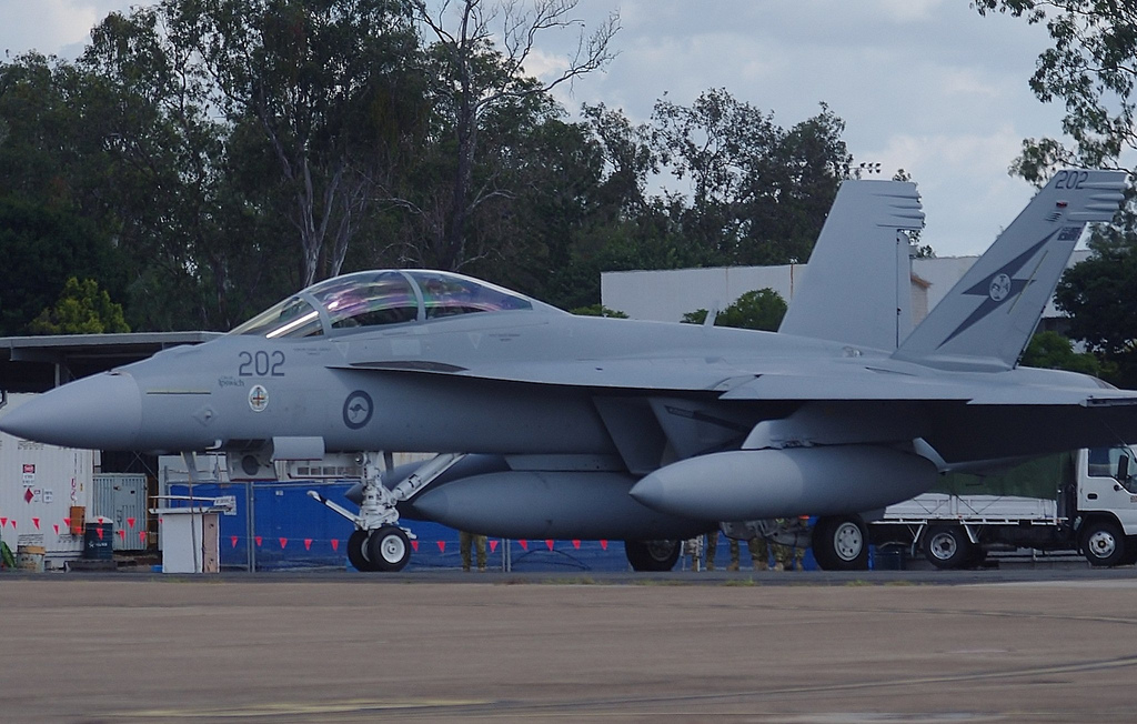 Royal Australian Air Force F/A-18F Super Hornet 'City of Ipswich' shortly after it first arrived in Australia